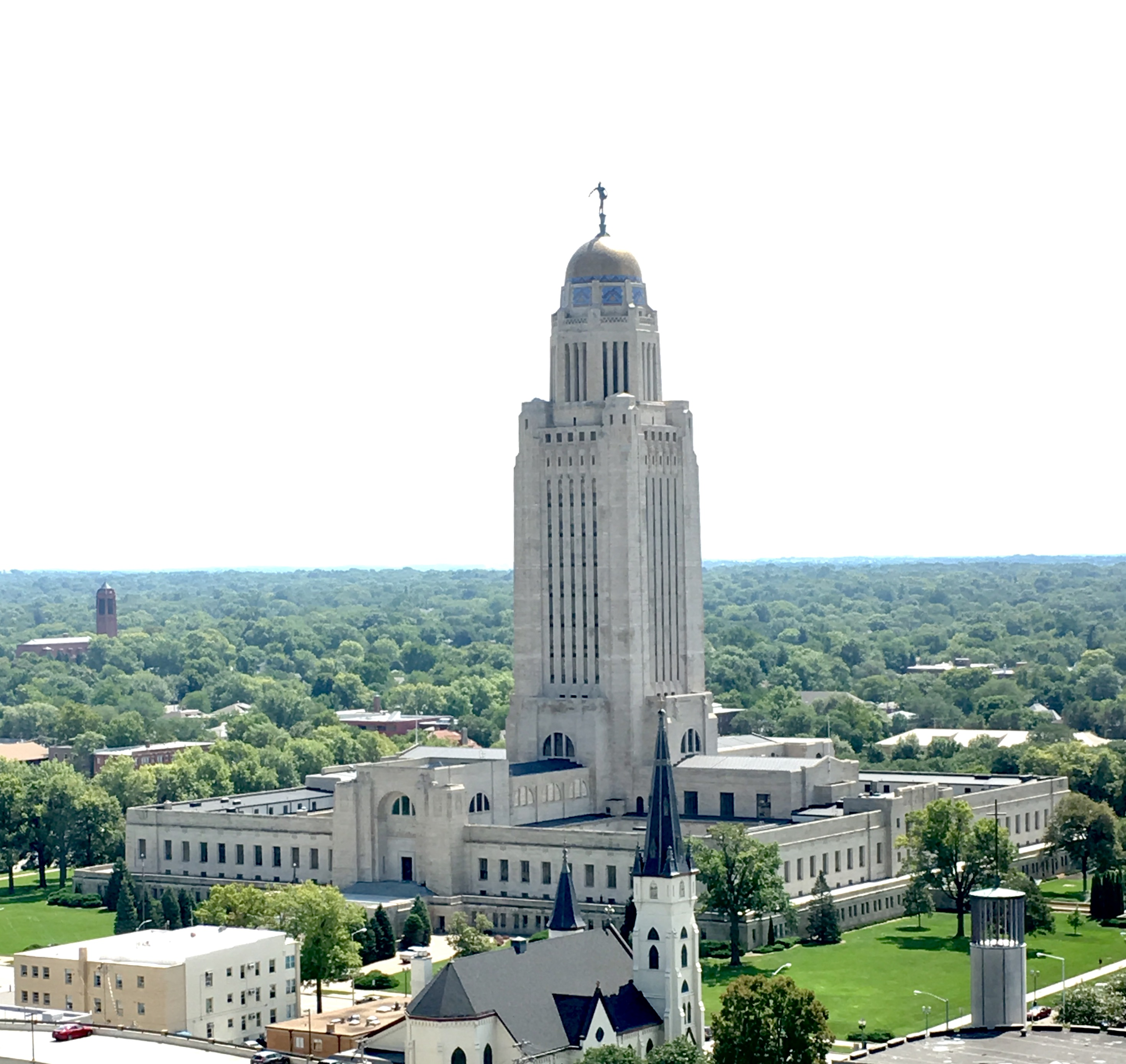 Aerial view of Nebraska State Capitol, taken from Nebraska Club, 20th floor of U.S. Bank building.